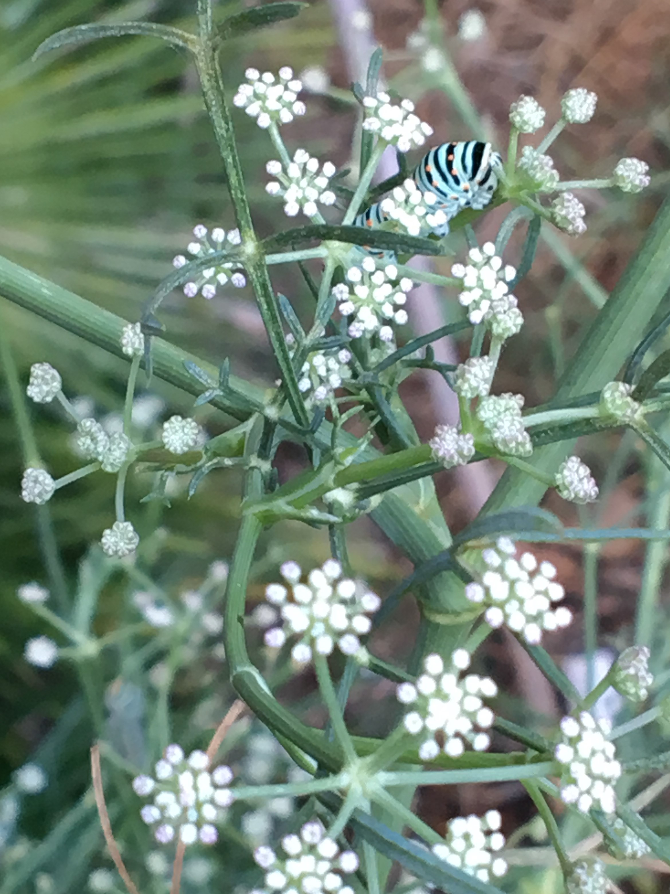 A caterpillar of Swallowtail butterfly on Seseli tortuosum